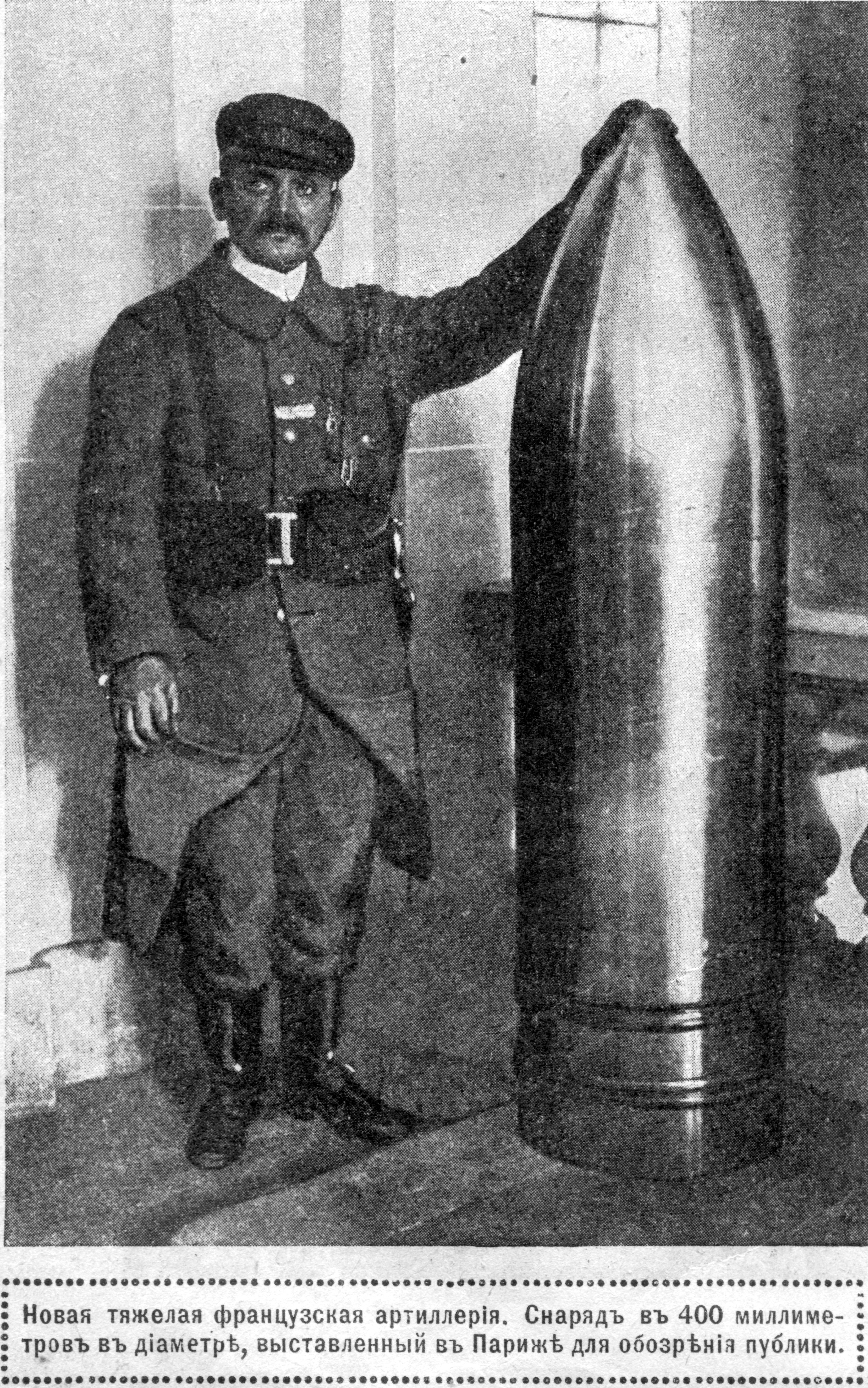 The shell of a new French heavy artillery piece (400 mm caliber) displayed in Paris. World War I, France.